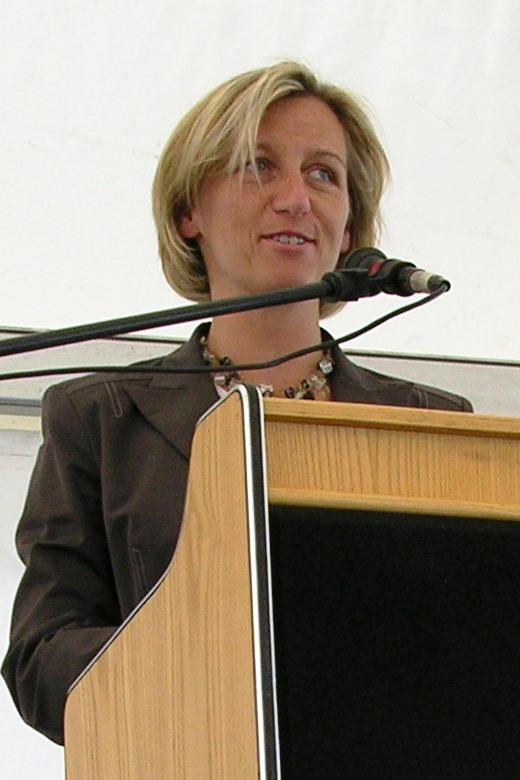 Mag. Kristina Edlinger-Ploder